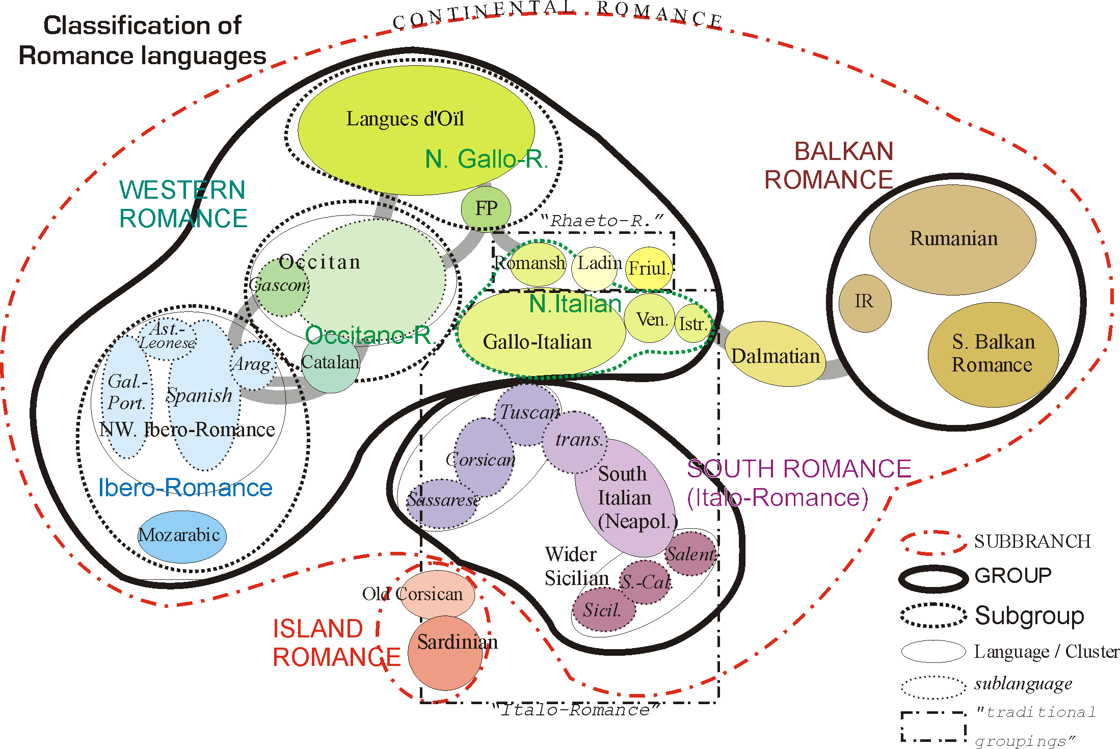 Chart of Romance languages based on structural and comparative criteria not on socio-functional ones. FP: Franco-Provençal IR: Istro-Romanian Based on the chart published in "Koryakov Y.B. Atlas of Romance languages. Moscow, 2001".